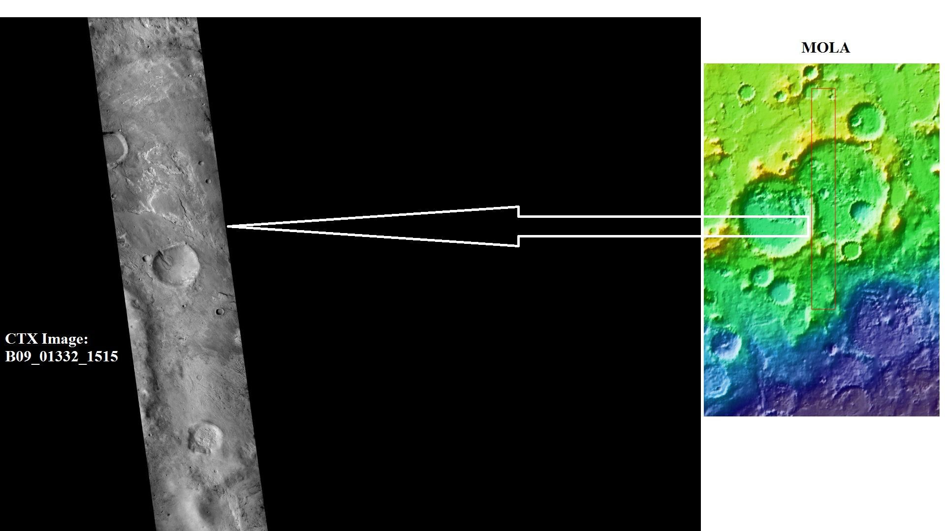 Niesten Crater, as seen by ctx and mola